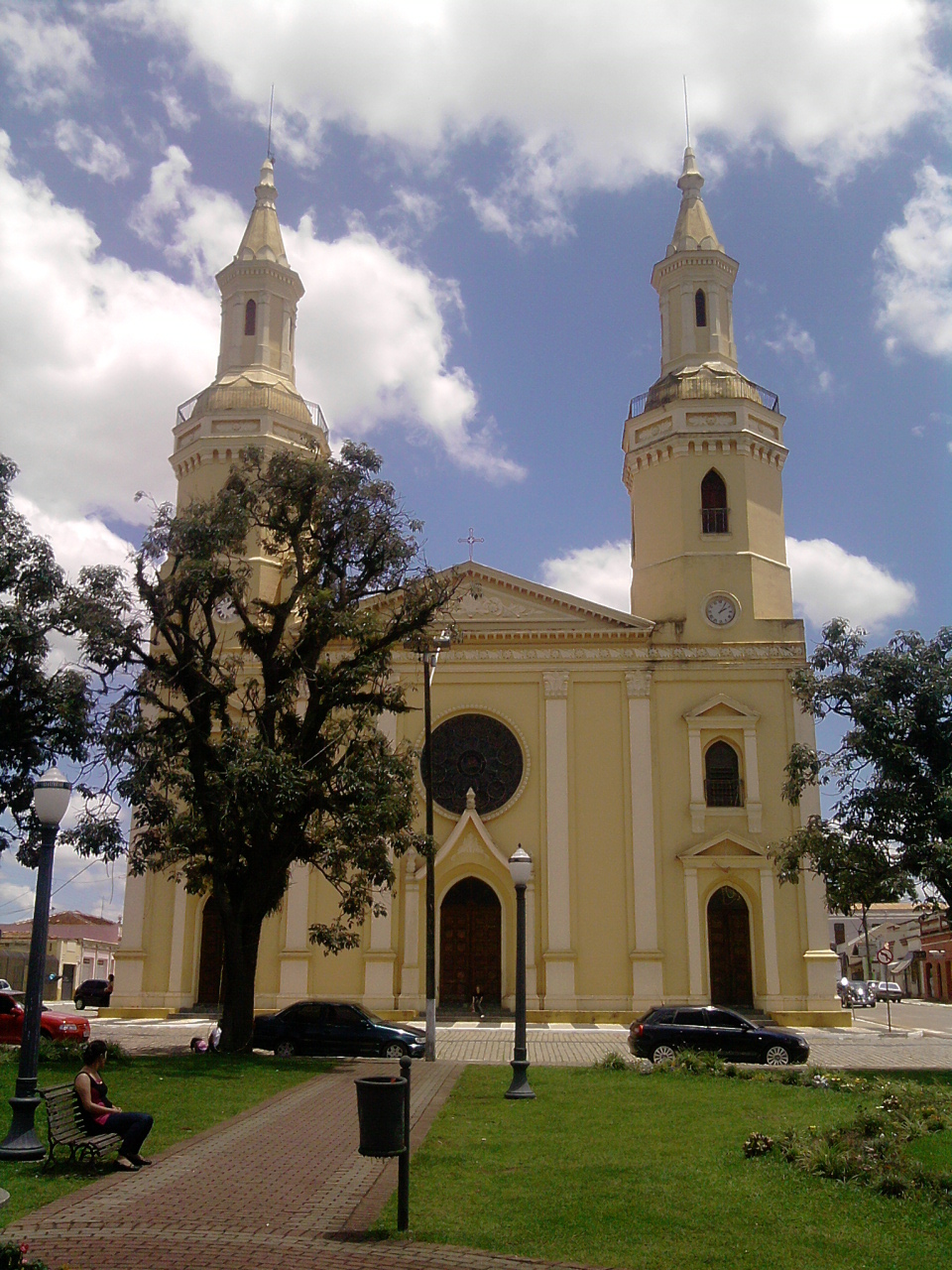 Frontal view of Sant'Ana Parish